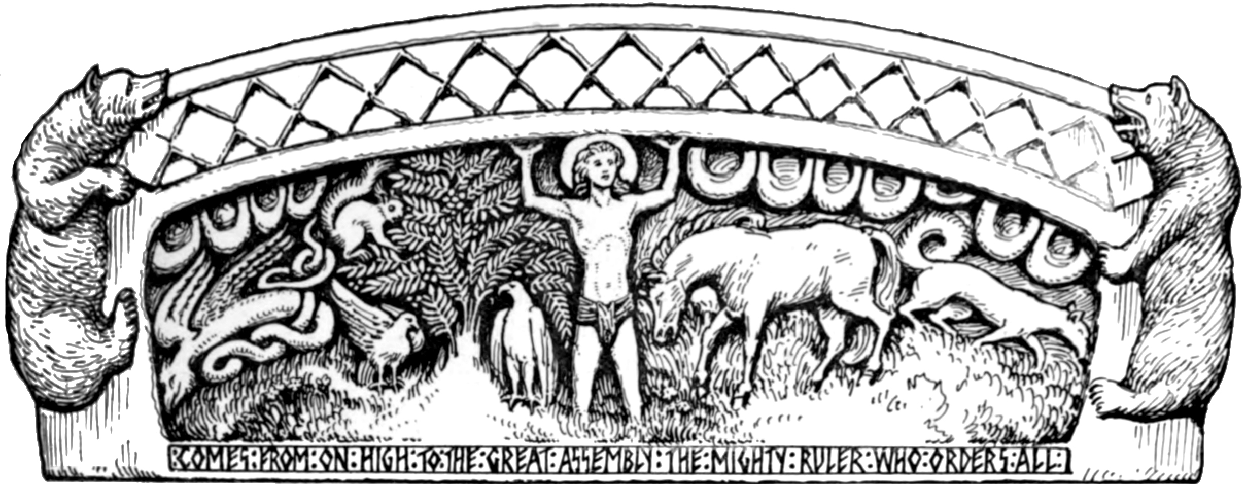 The list of illustrations in the front matter of the book gives this one the title The Restoration (motive from the Heysham hogback).